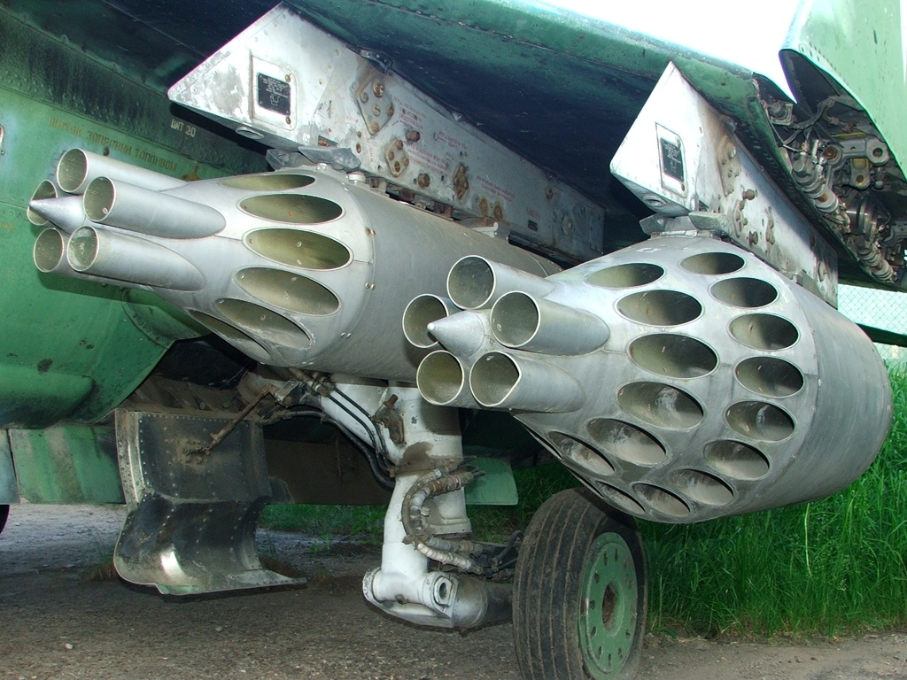 Yak-38 VTOL attack aircraft at Khodynka Field, Moscow